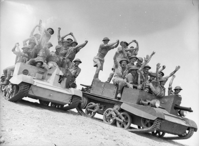 Soldiers from the Australian 2/6th and 2/7th Infantry Battalions on Bren carriers while training in Egypt, October 1940.